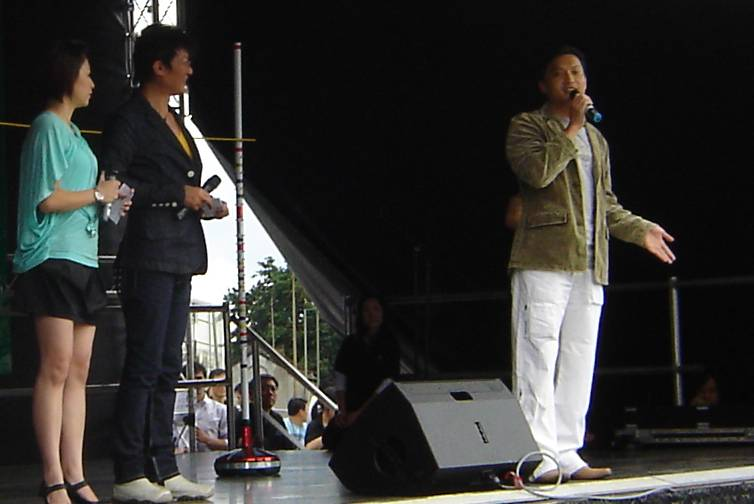 Sunny Chan, seen with local TVB artists, in the UK as guest compere for TVB-Europe's Happy Family Gala promo-event.Taken in Brent Cross NCR car park.